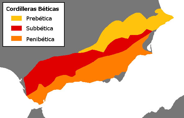 Baetic System (Spain) in Spanish